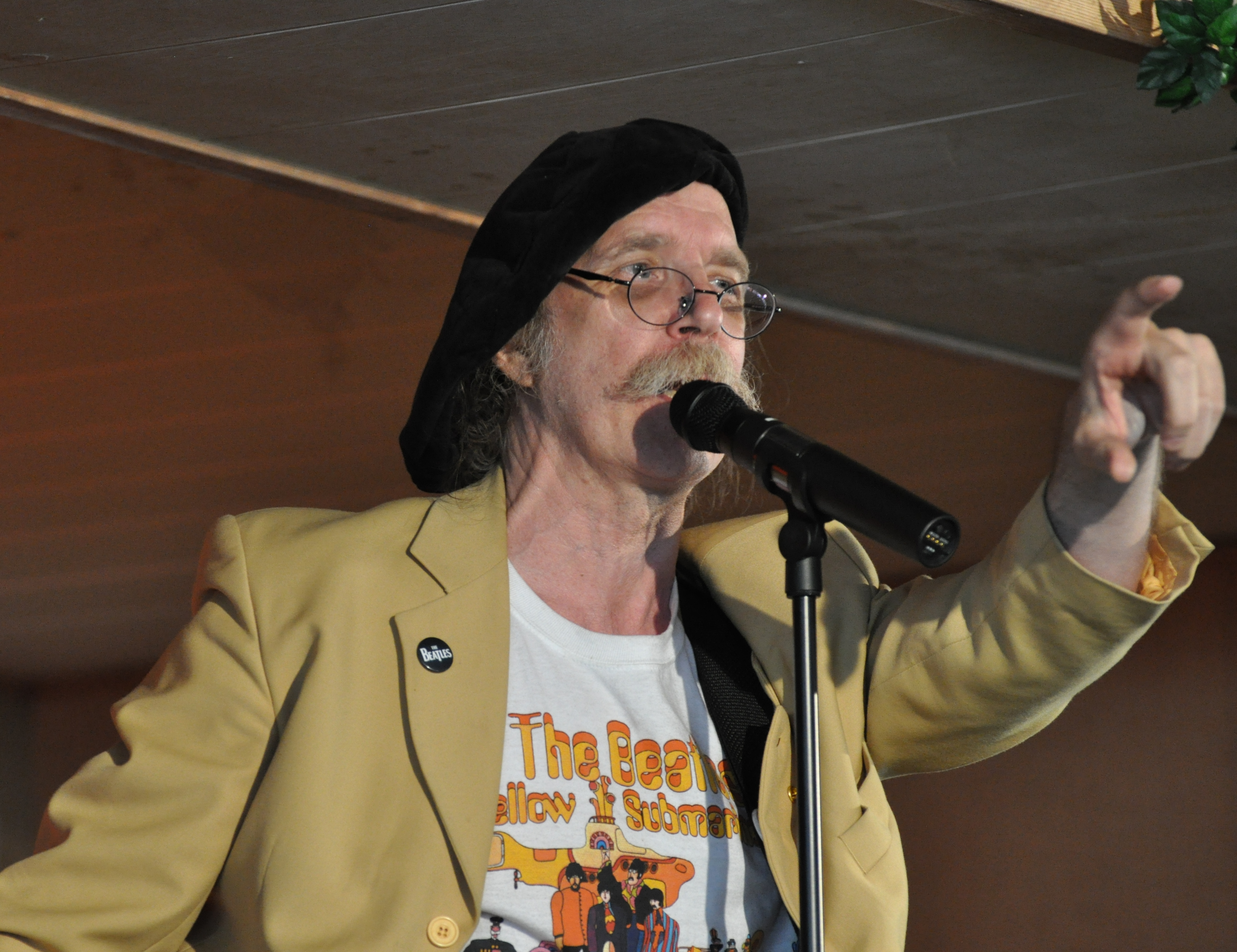 Finnish musician Veltto Virtanen performing in Salo, 2010.